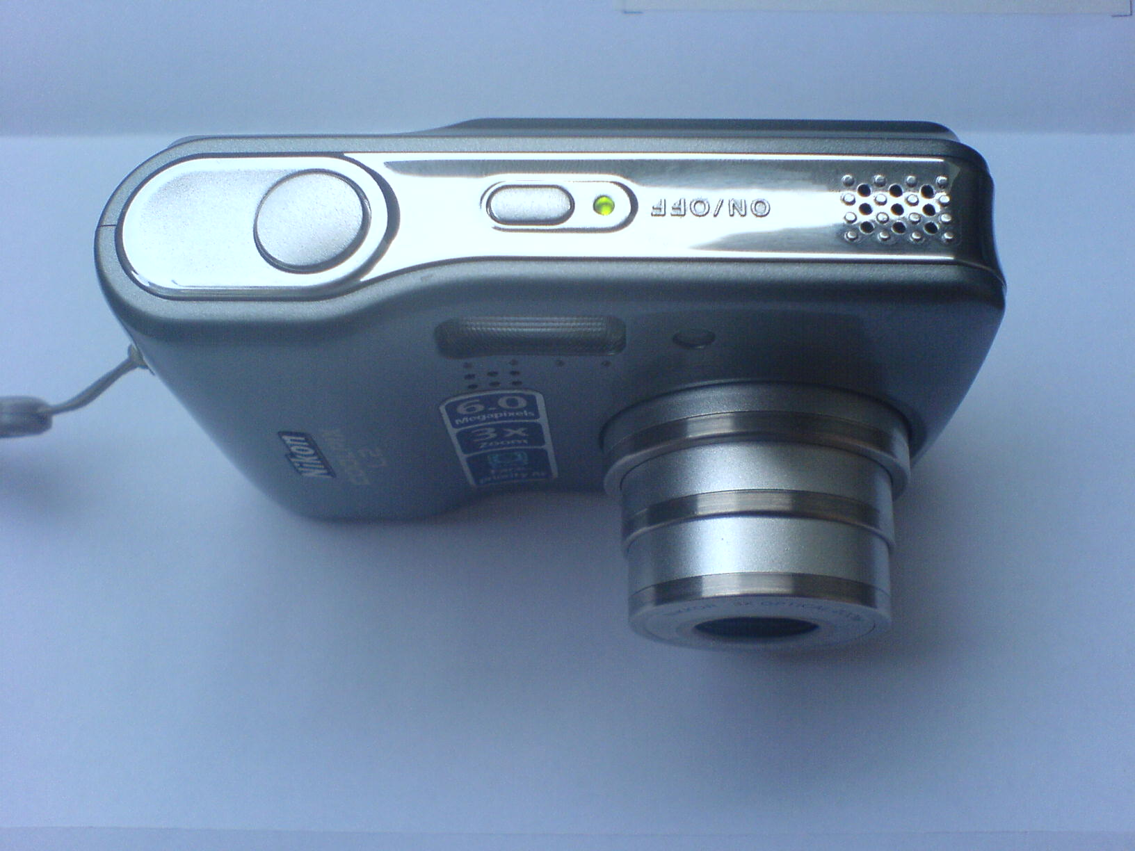 Nikon Coolpix L2, silver, front.